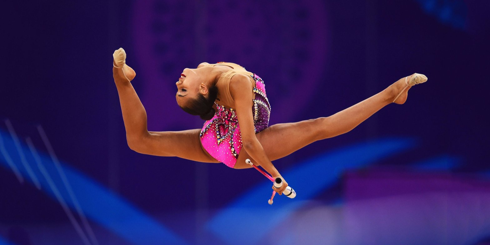 Russian rhythmic gymnast Margarita Mamun in 2015